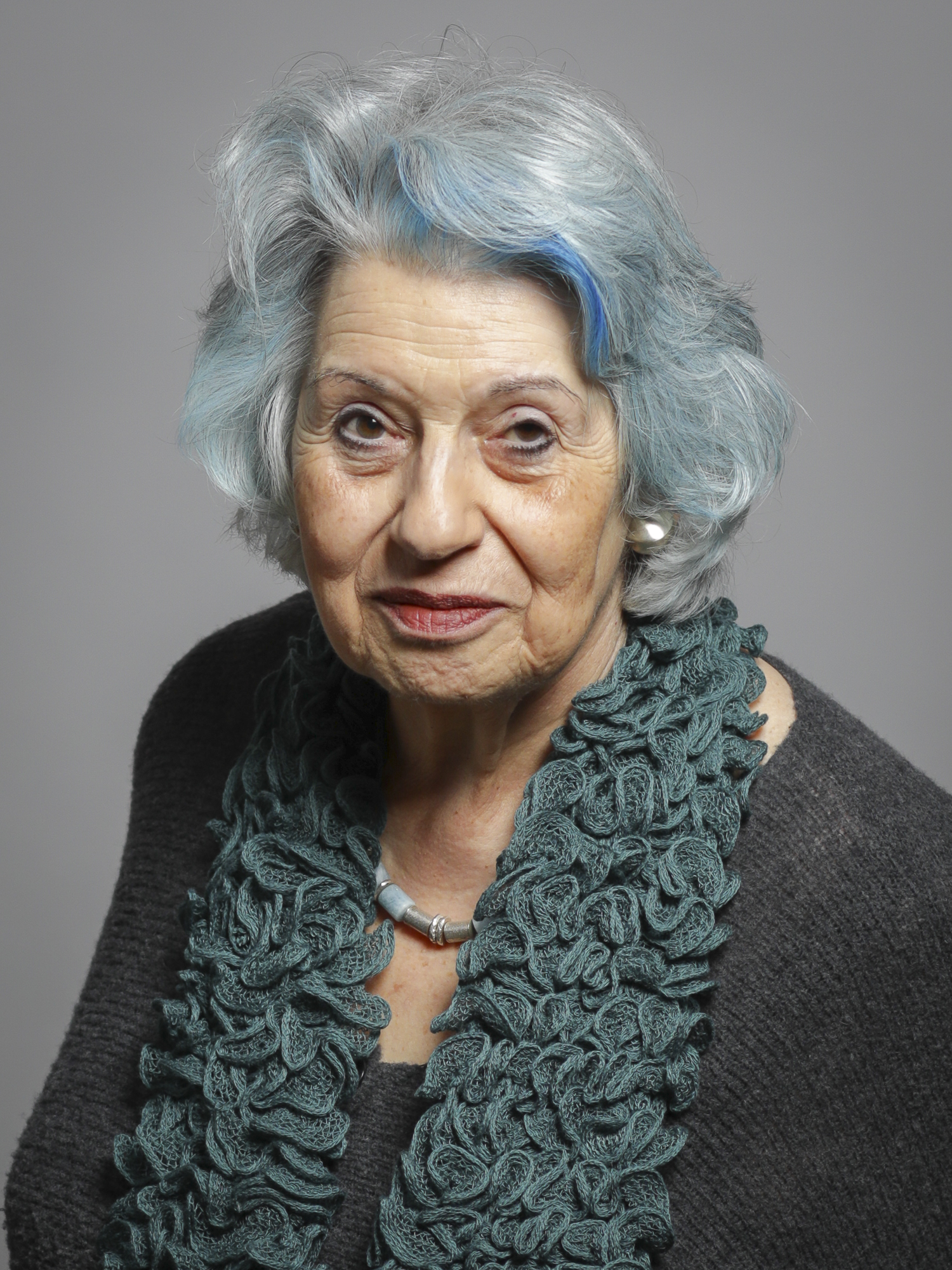 Official portrait of Baroness Hamwee 3×4 portrait of Baroness Hamwee